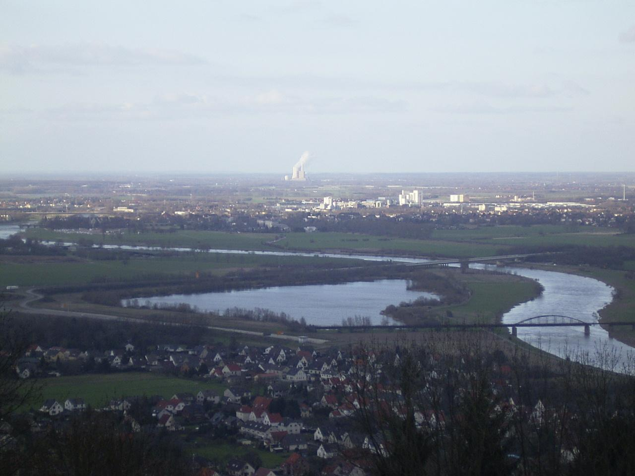 View over Mindener Land close to Minden, North Rhine-Westphalia and into the North German Plain.